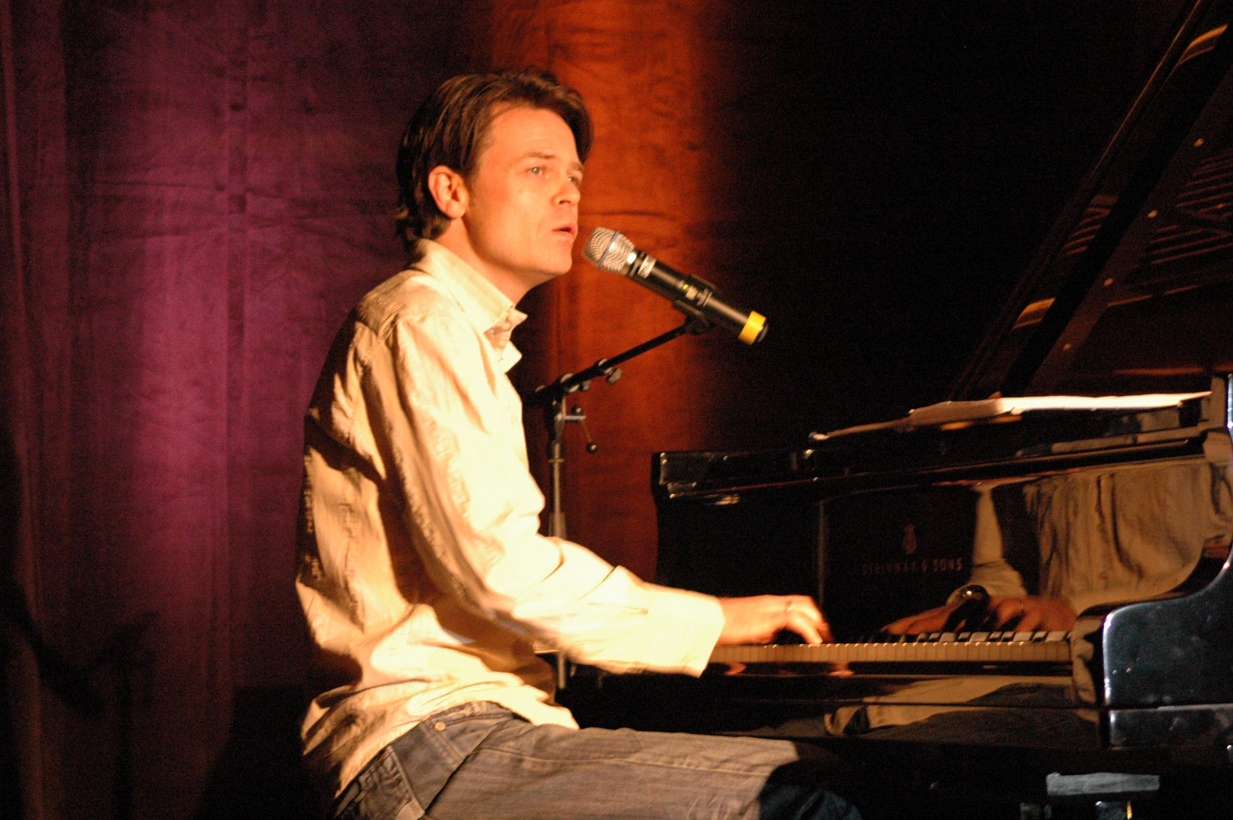 Klaus-André Eickhoff live